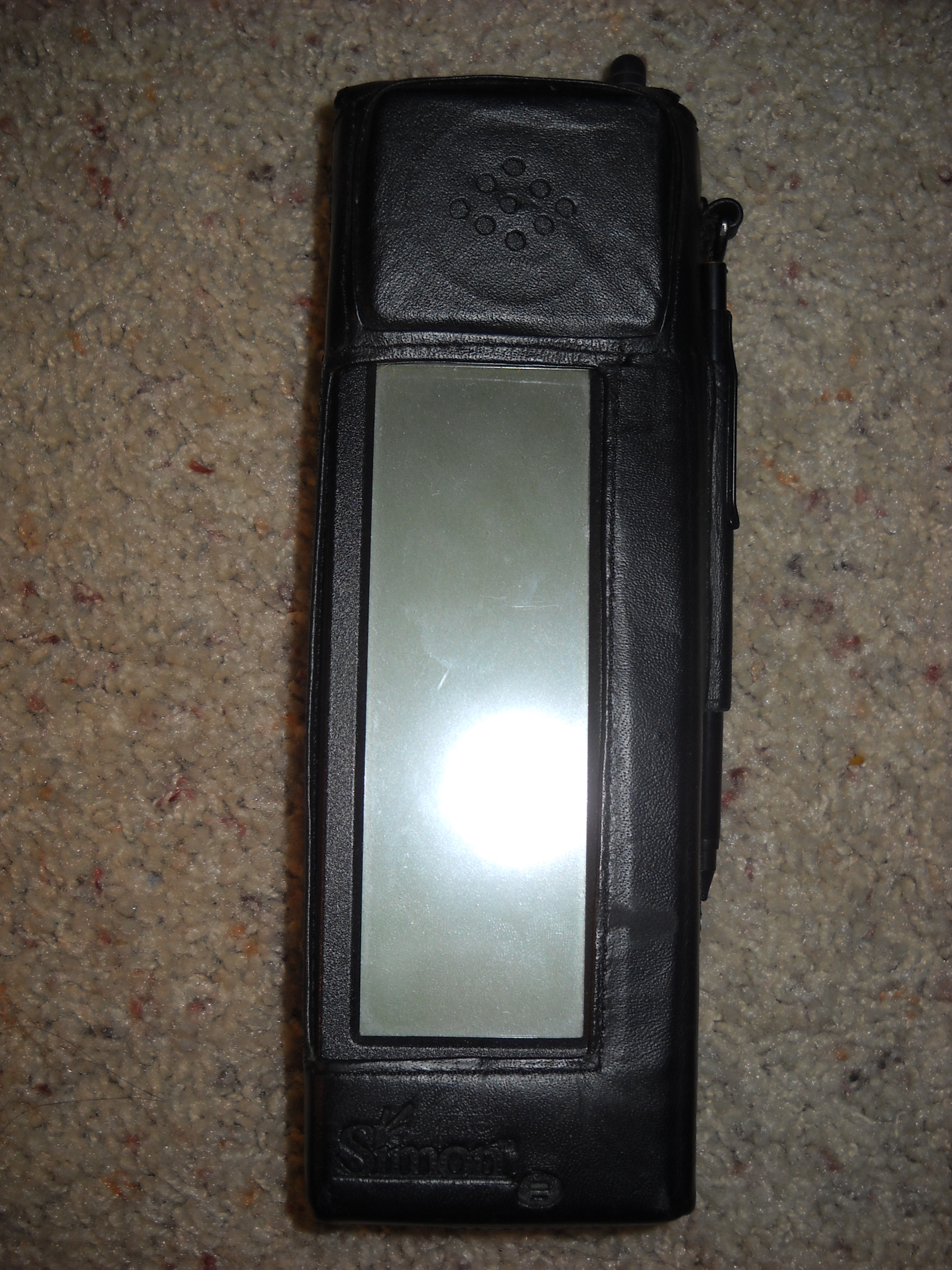 IBM/BellSouth Simon smartphone in leather case.